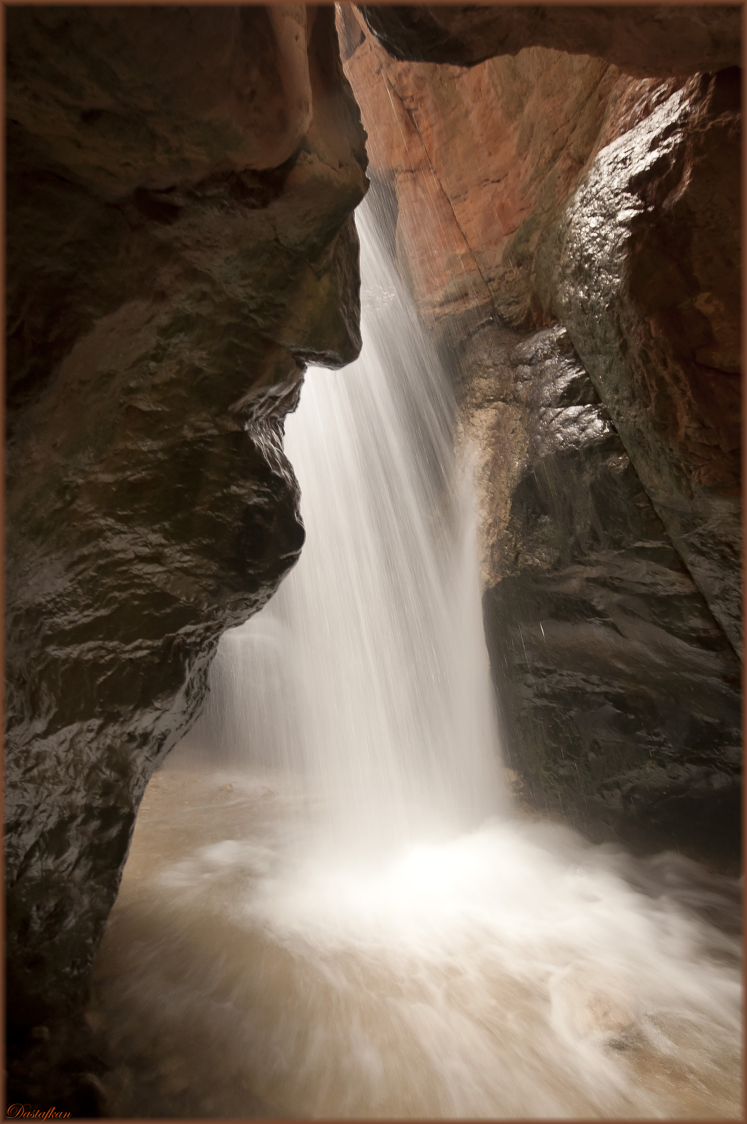 Waterfall in Damghan County, Iran; near Mojen